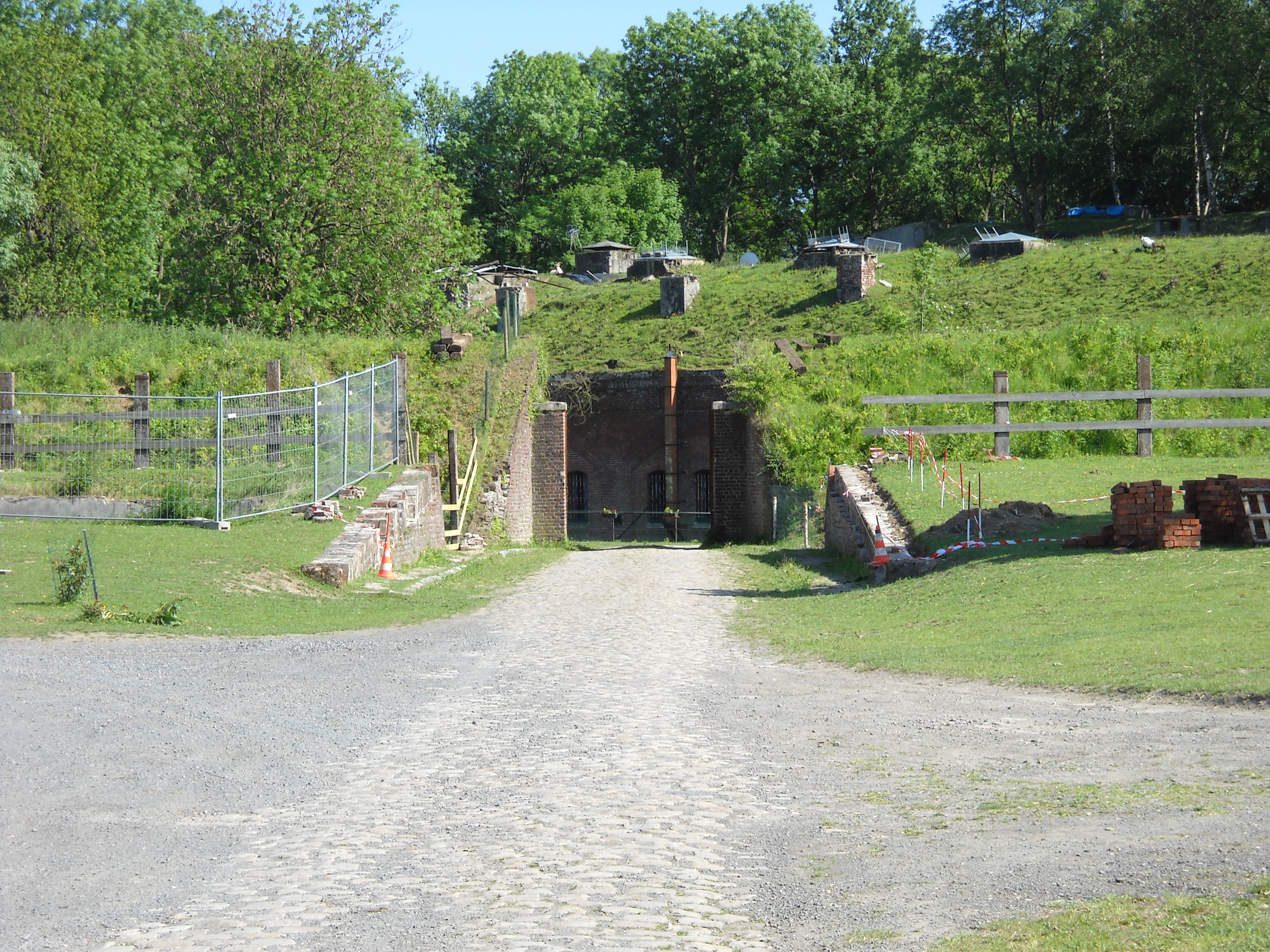 The old fort of Seclin, Nord, France.